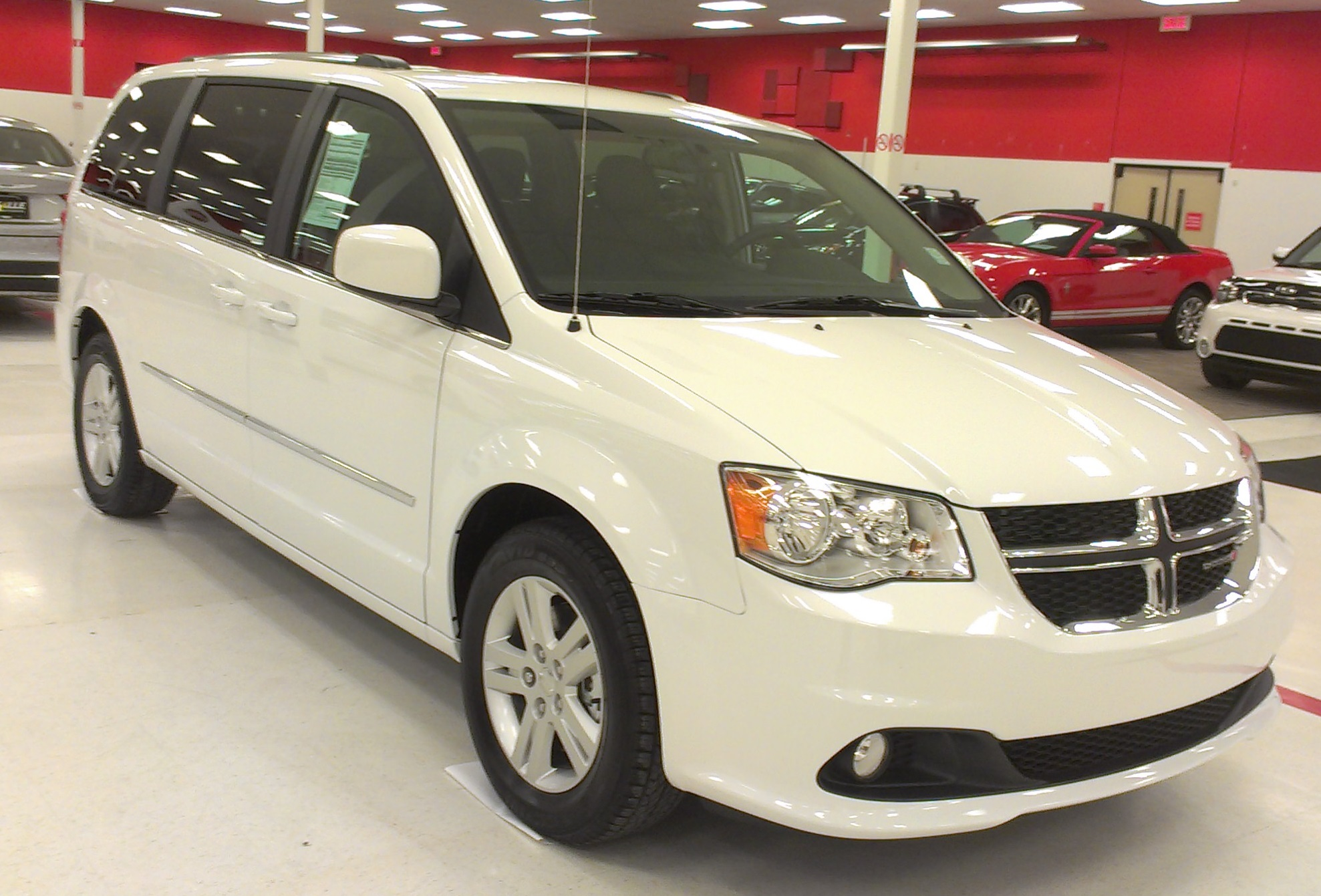 2016 Dodge Grand Caravan photographed in Montreal, Quebec, Canada inside the former Carrefour Angrignon location of Target/Zellers.